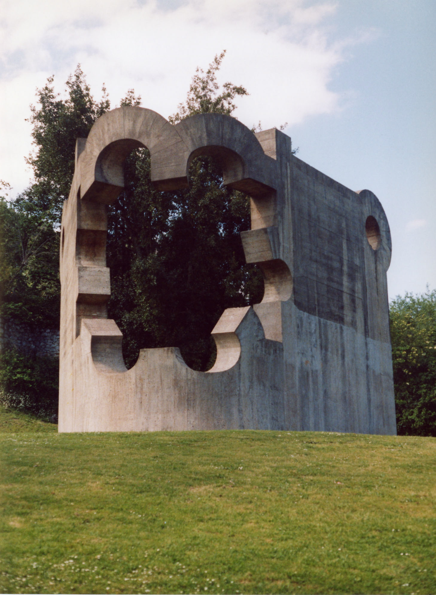 Statue in the park, Gernika